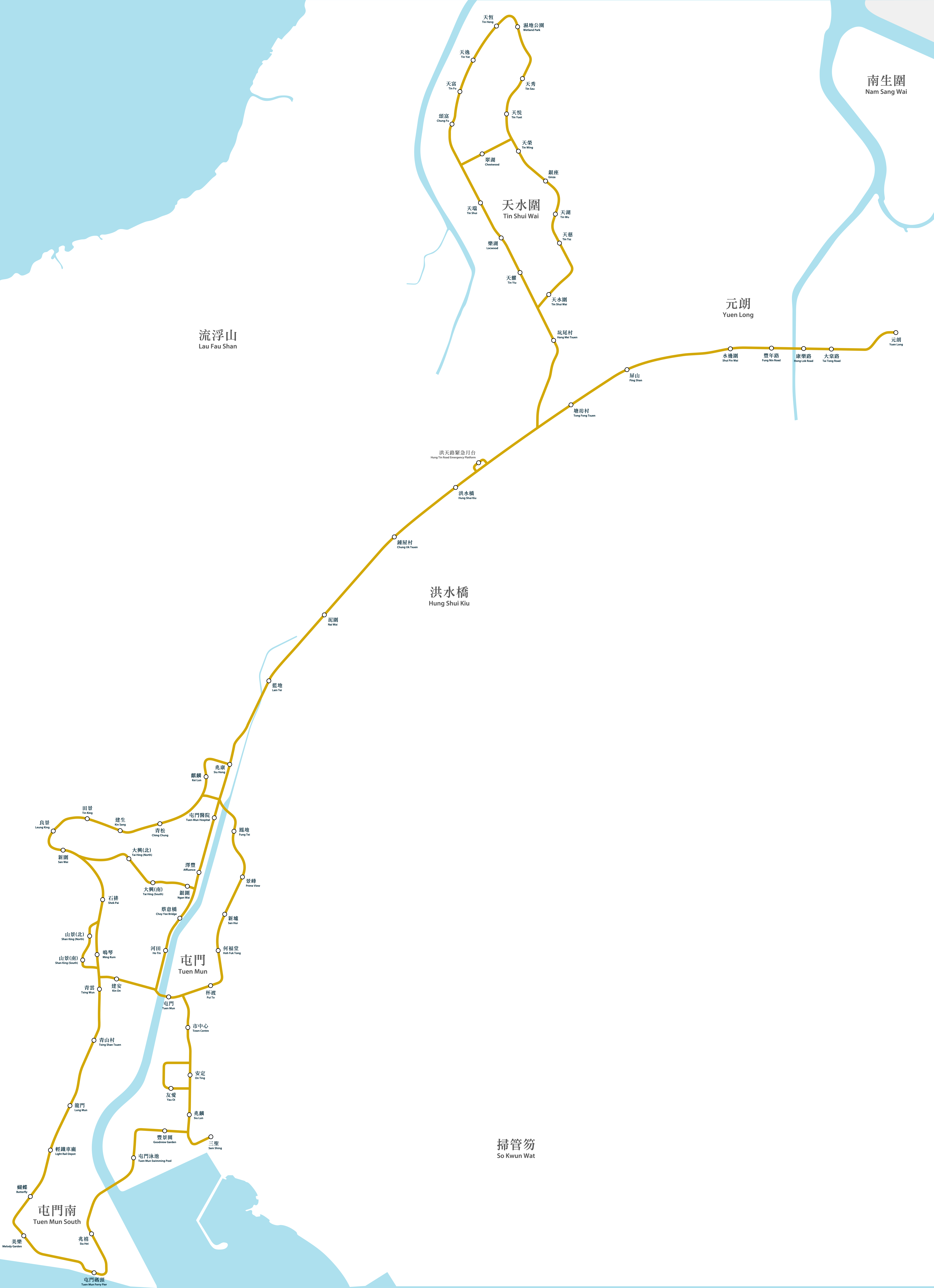 Hong Kong Light Rail Geographical Map